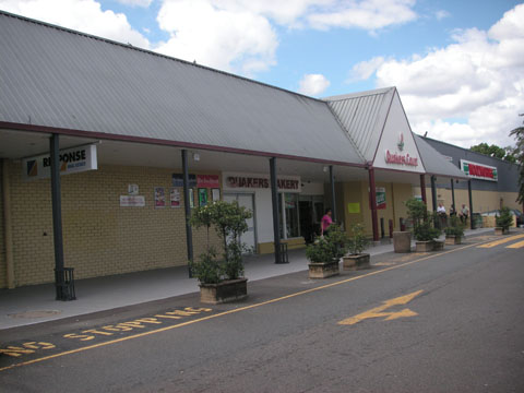 Quakers Court Shopping Centre on the southern edge of Quakers Hill, nSW, near boundary with Marayong.